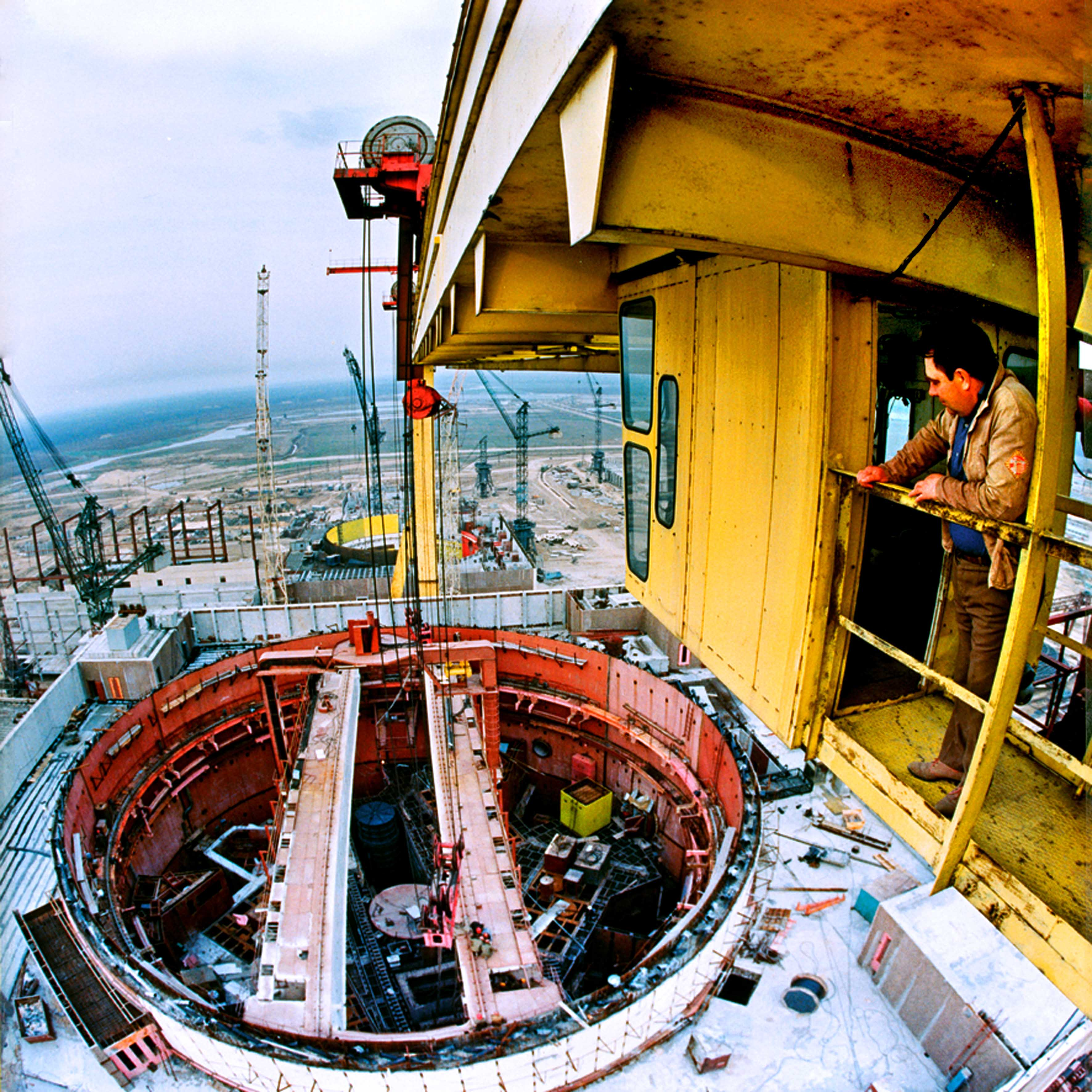 Unit one and two of the Balakovo Nuclear Power Plant under construction